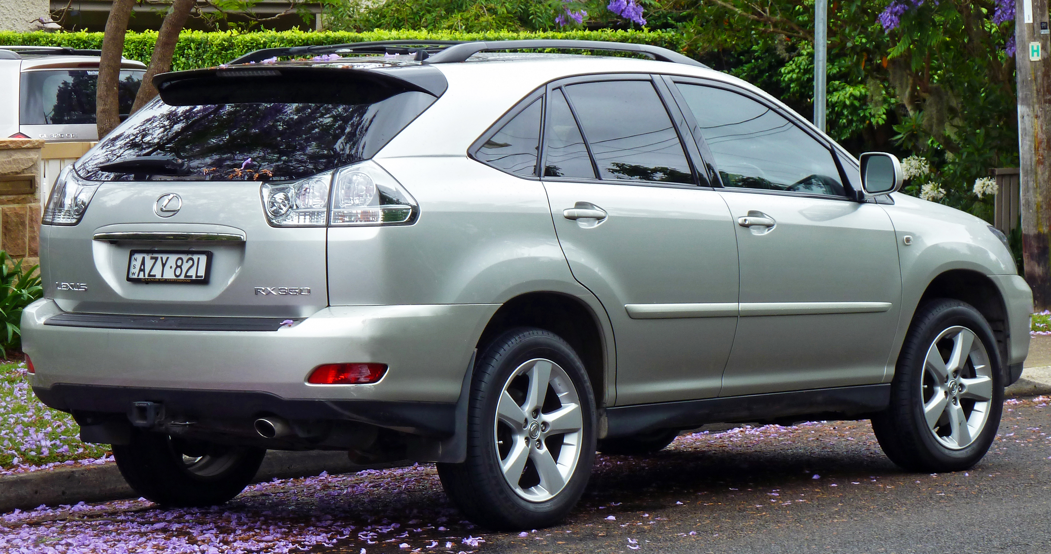 2006–2007 Lexus RX 350 (GSU35R) Sports Luxury wagon. Photographed in Lindfield, New South Wales, Australia.